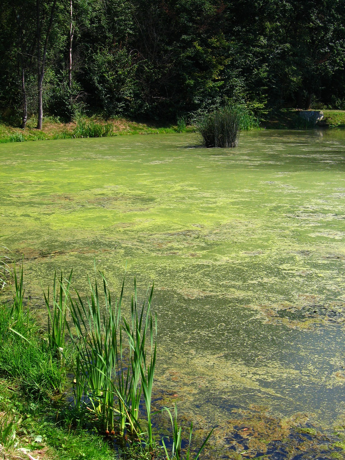 Algal bloom effect in smaller pond in Sołtysowicki Forest, Wrocław, Poland.